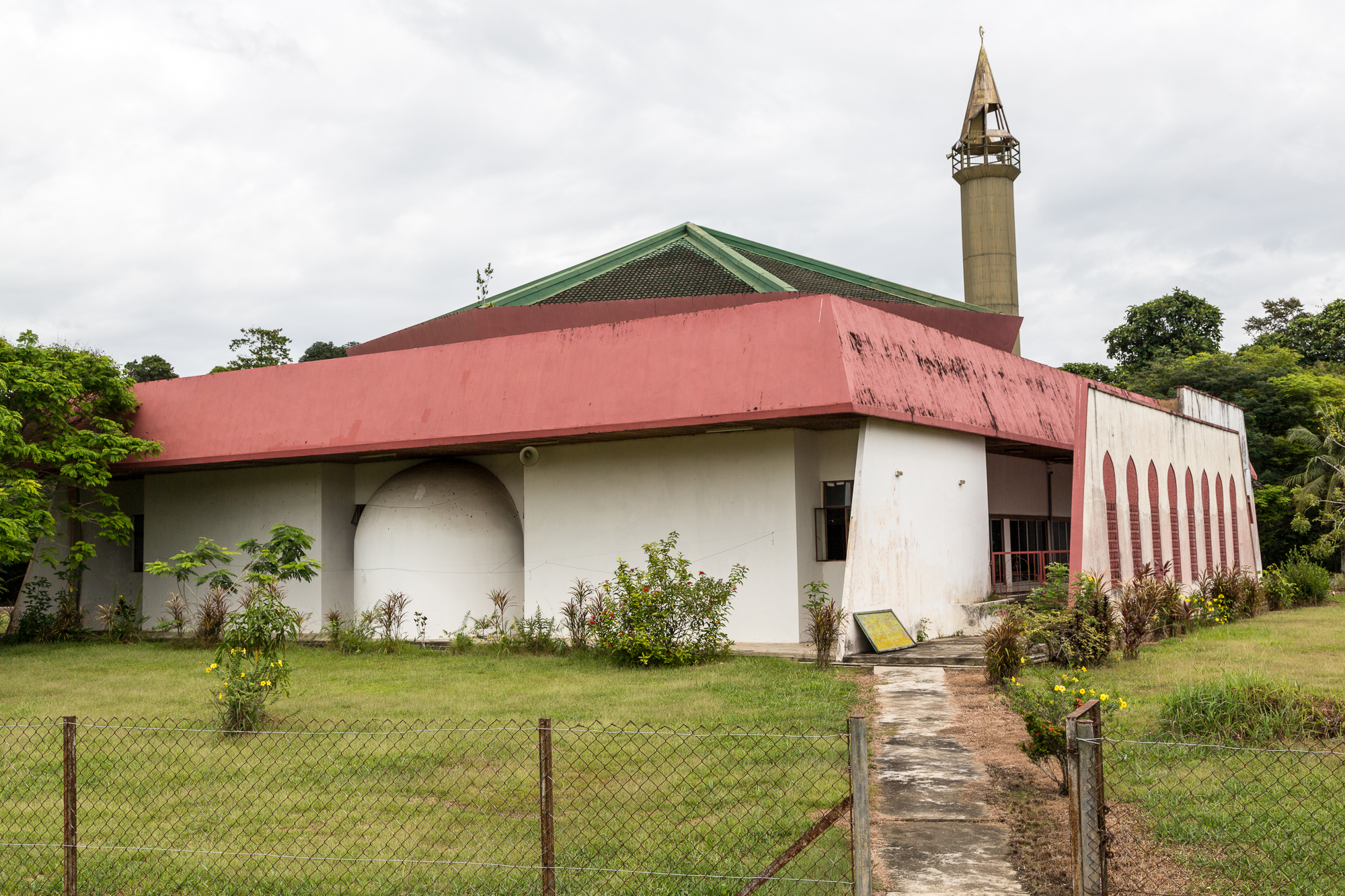 Sindumin, Sabah: Sahabat Mosque